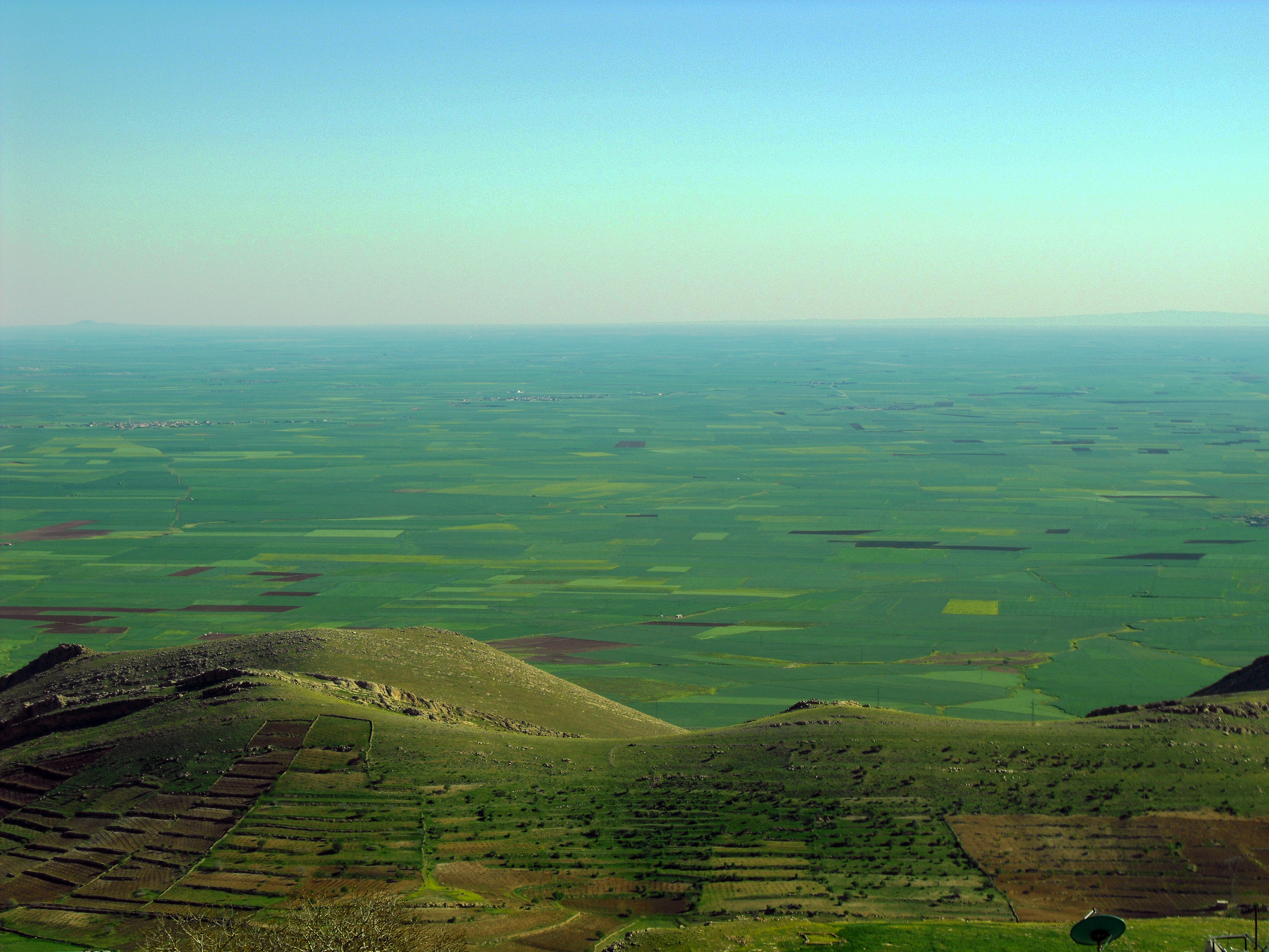 The Plains south of Mardin, Turkey.